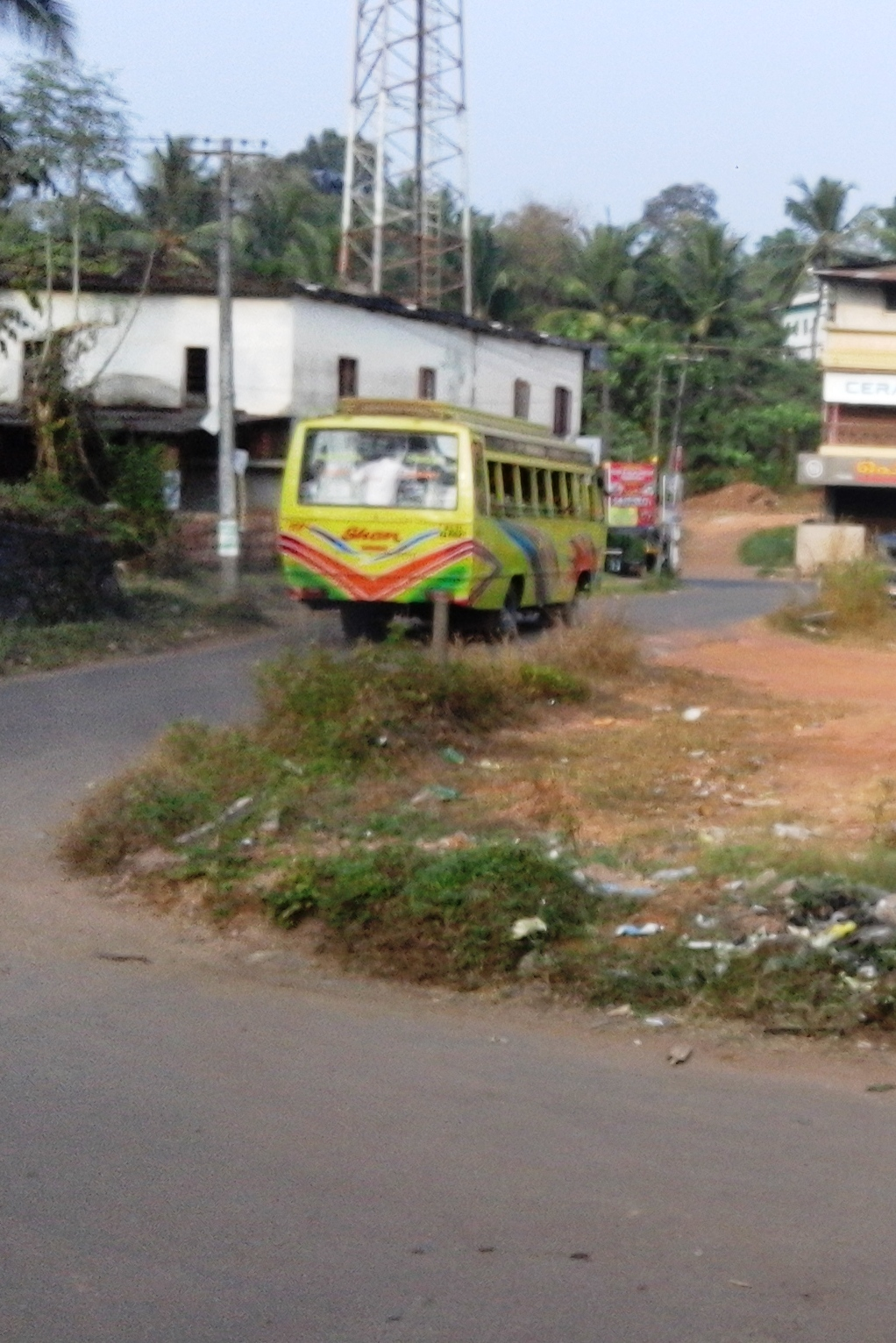 Chaliyar Grama Panchayath, Nilambur, Malappuram District, Kerala, India.